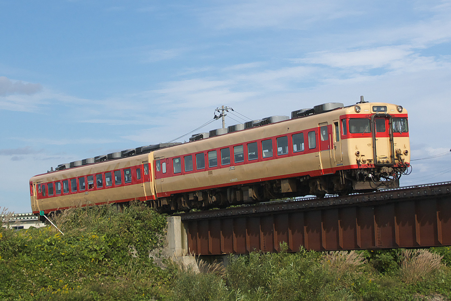 JNR (now JR-East) type Kiha58 diesel cars, JNR express color.